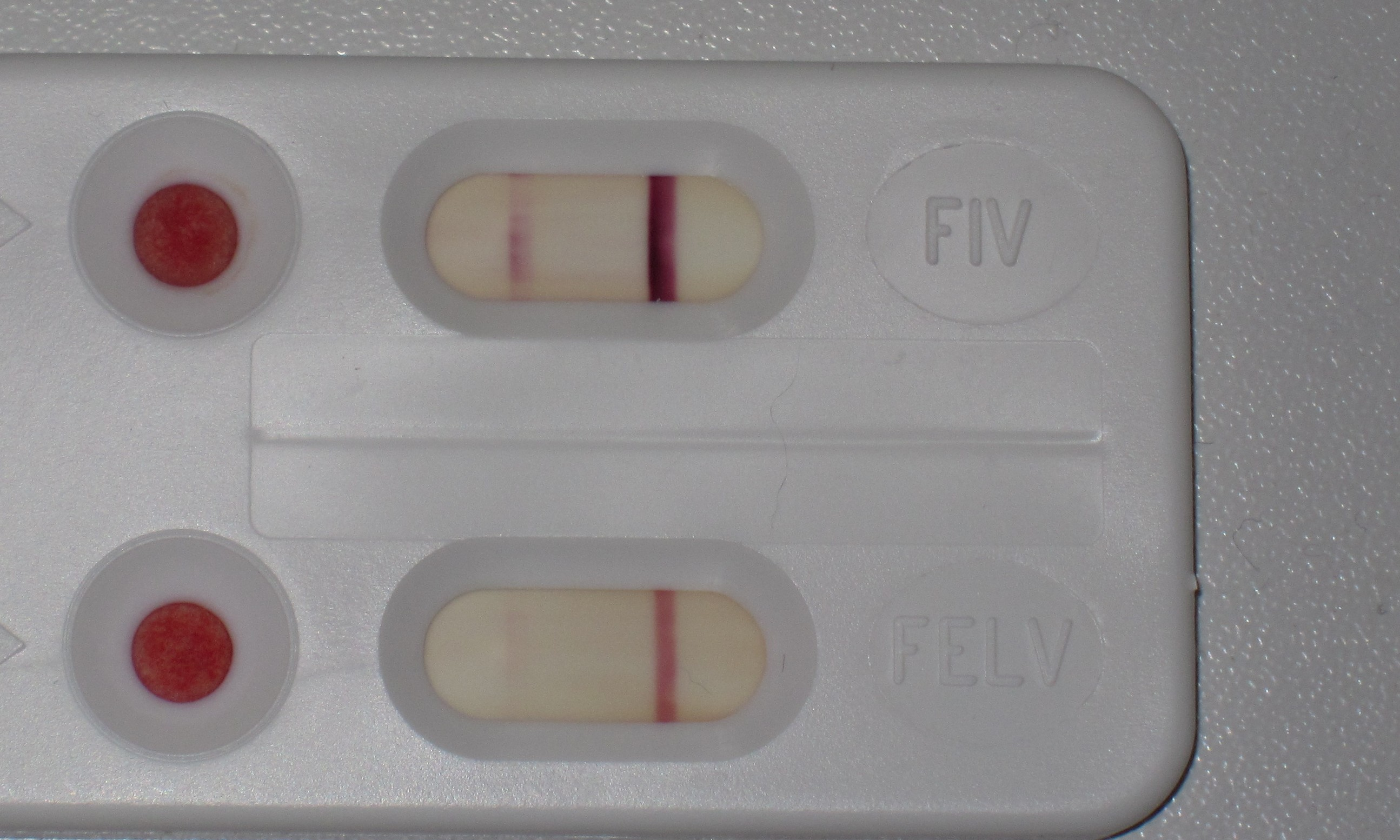 Fast test for FeLV and FIV, both positive